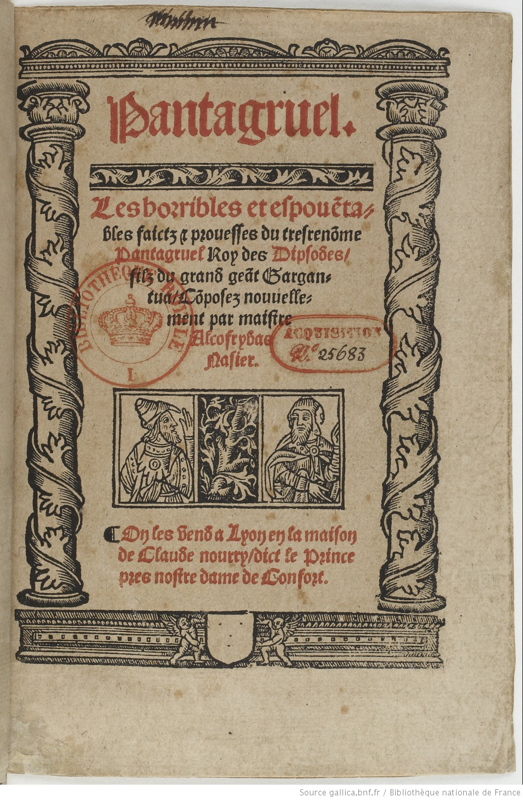 This is the frontispice of François Rabelais' "Pantagruel" printed in 1525 or 1535